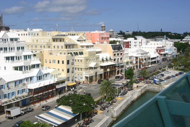 Front Street in Hamilton Bermuda